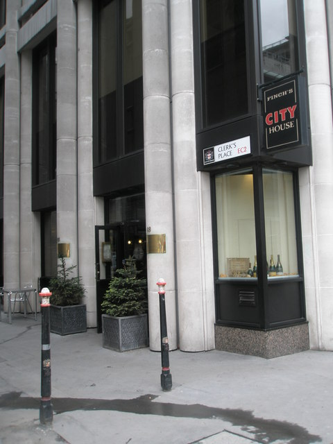 Clerk's Place off Bishopsgate. In 1598 the prolific historian John Stow described it as the entry to the court of the Parish clerks.